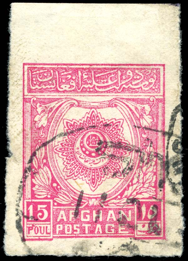 Afghanistan 15p stamp of 1927